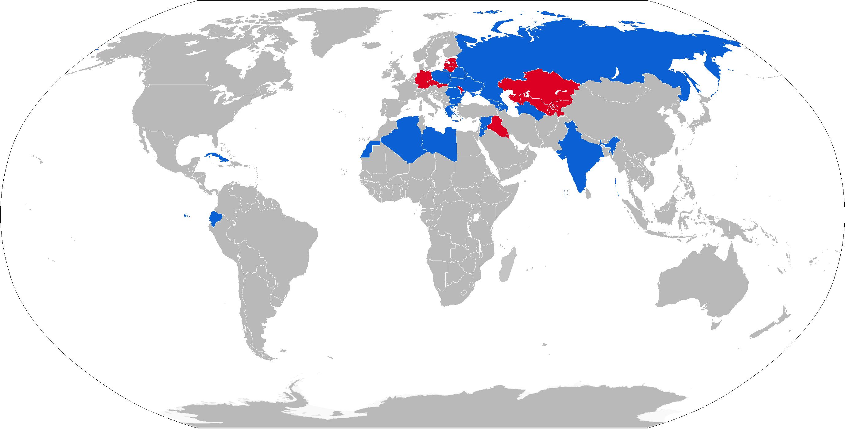 Map of 9K33 operators in blue with former operators in red